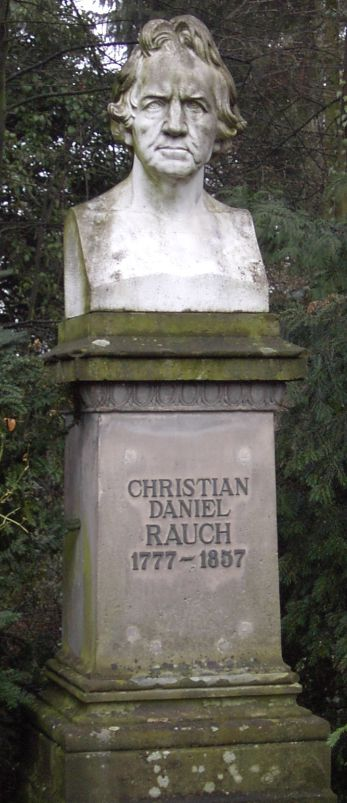 Christian Daniel Rauch memorial at Bad Arolsen